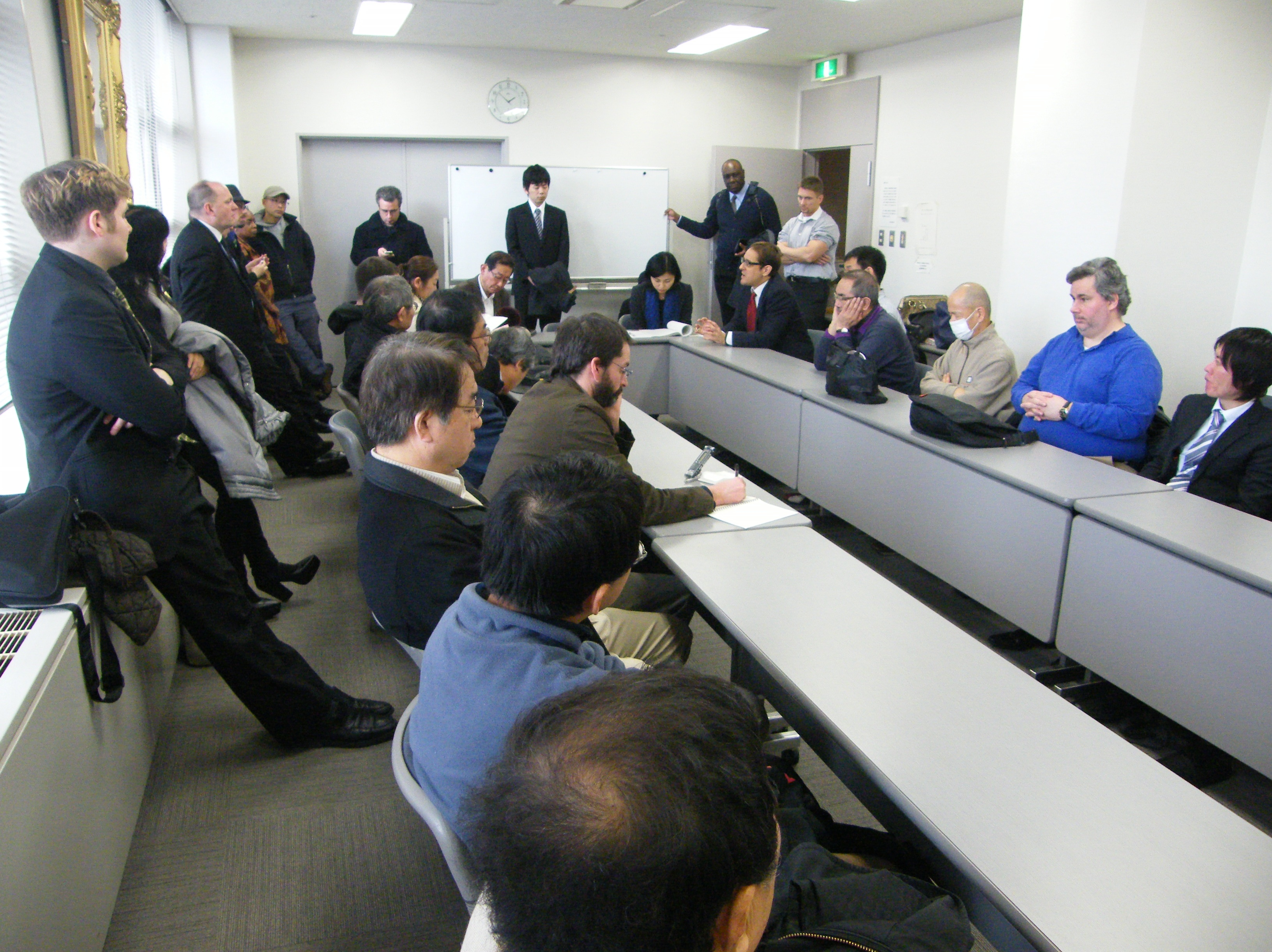 Begunto (Berlitz General Union) members and supporters gather to hear the details of the Tokyo District Court ruling on February 27, 2012 in the lawsuit over the Berlitz Japan 2007–2008 Strike. In the words of Yumiko Akatsu, lawyer for the union, the ruling was "a complete victory — on not one point did we lose, not one single point."